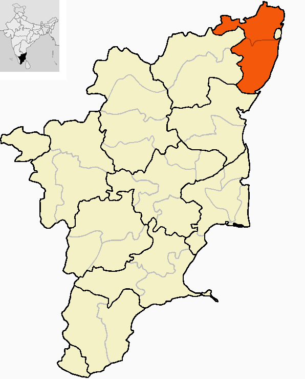 Location of former Chengalpattu (Chingleput) district at the time of the formation of Madras State (present-day Tamil Nadu) in 1956. Chengalpattu district was bifurcated in 1997 in Kanchipuram and Tiruvallur districts. Present-day district borders (as of 2009) marked in grey.